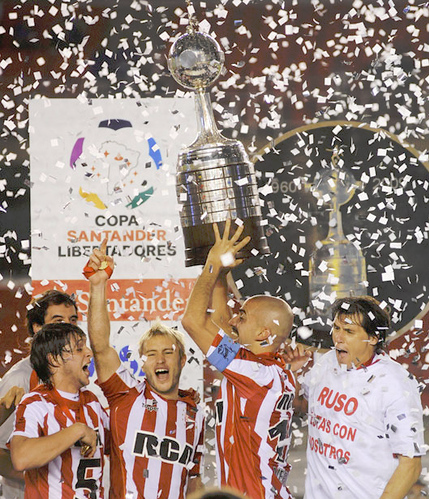 Estudiantes de La Plata, winners of the 2009 Copa Libertadores